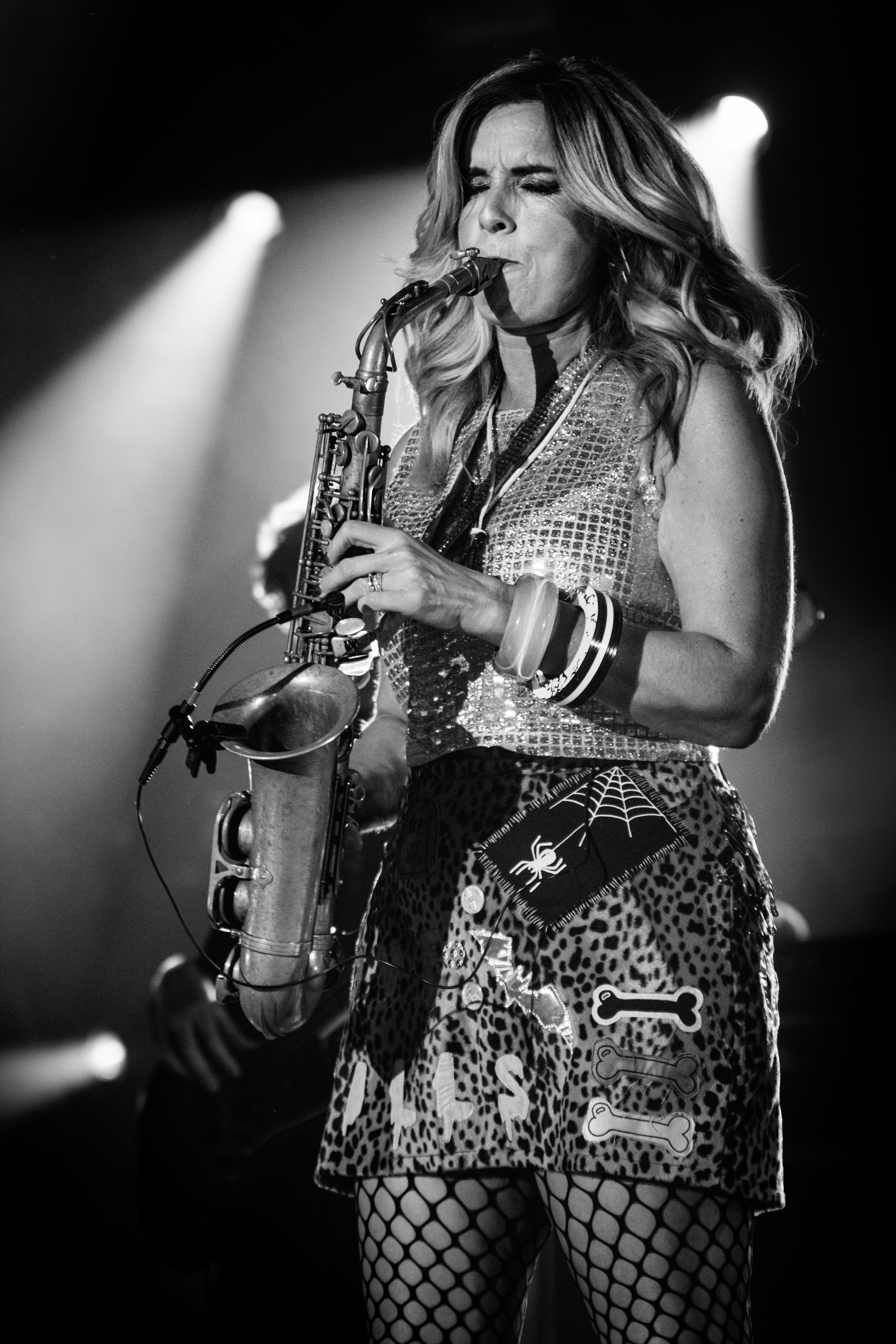 Candy Dulfer - Leverkusener Jazztage 2016